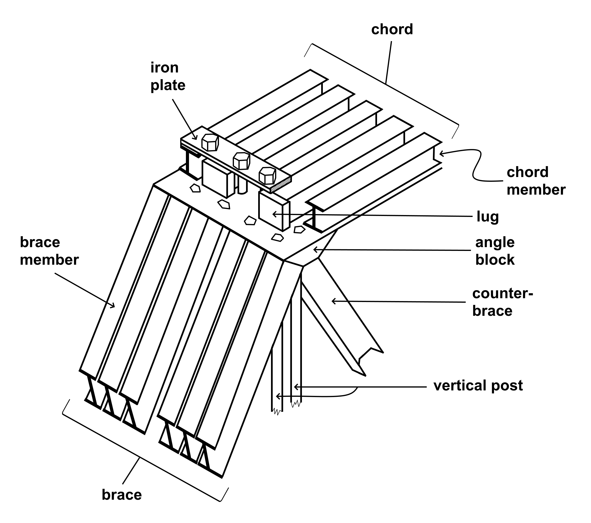 Angle block, bracing, and chord of the Ashtabula Bridge in Ashtabula, Ohio, that failed on December 29, 1876. The original drawing was by civil engineer Charles MacDonald, who examined the bridge wreckage in late January 1877. Redrawn by Tim Evanson.